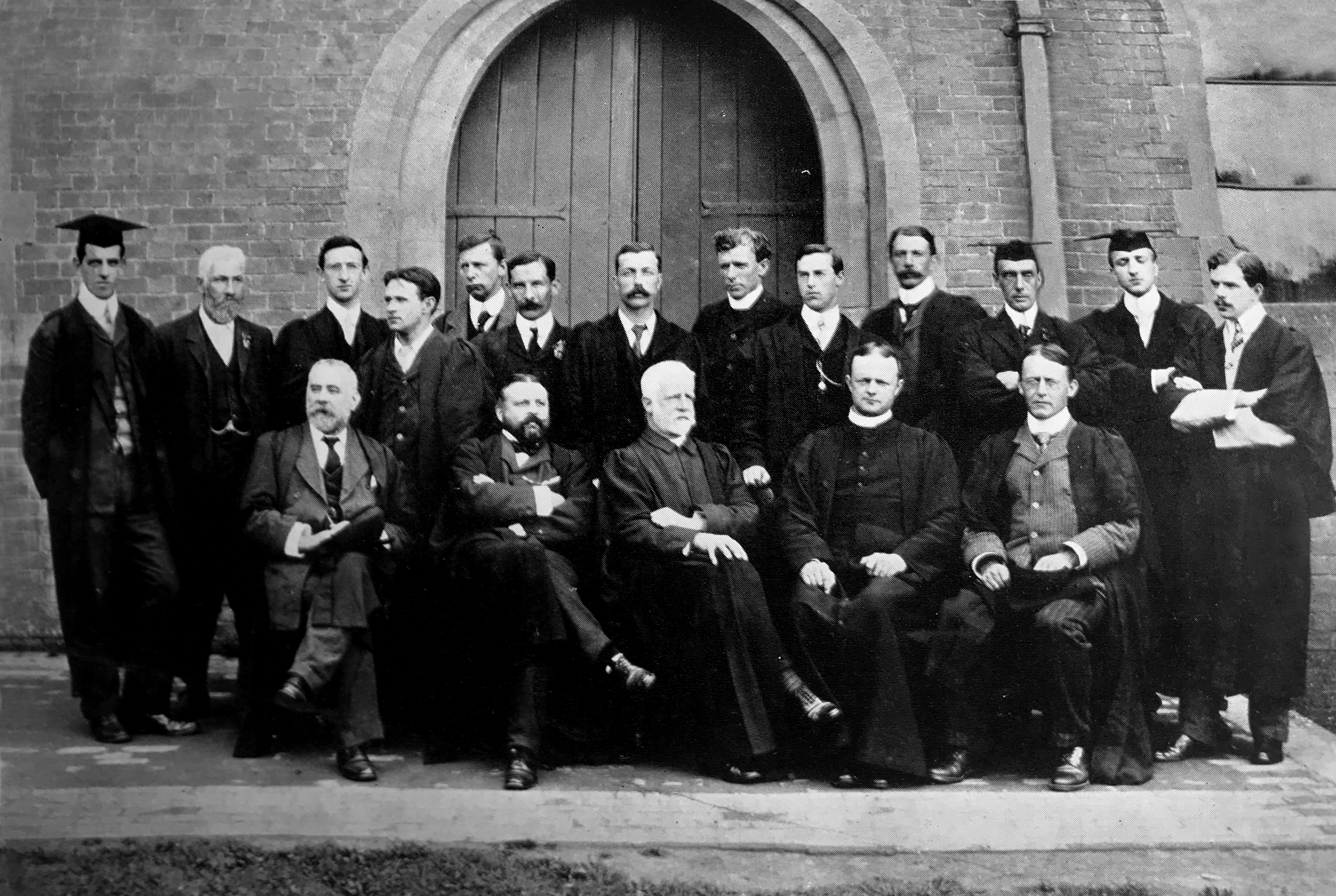 Standing: L. Riley, R. Cunnington, H. J. Hosband, H. J. H. Connett, J. W. Bell, C. Streat, H. B. Crewe, Rev. W. B. Jacob, F. W. Gothard, F. Cartwright, A. H. T. Smith, A. G. Sellon, E. H. Prahl. Sitting: A. M. Sutton, W. M. Sproston (Second Master), Rev. F. K. Hilton (Headmaster), Rev. A. R. L. N. Bulkeley (Chaplain), H. Blackman.